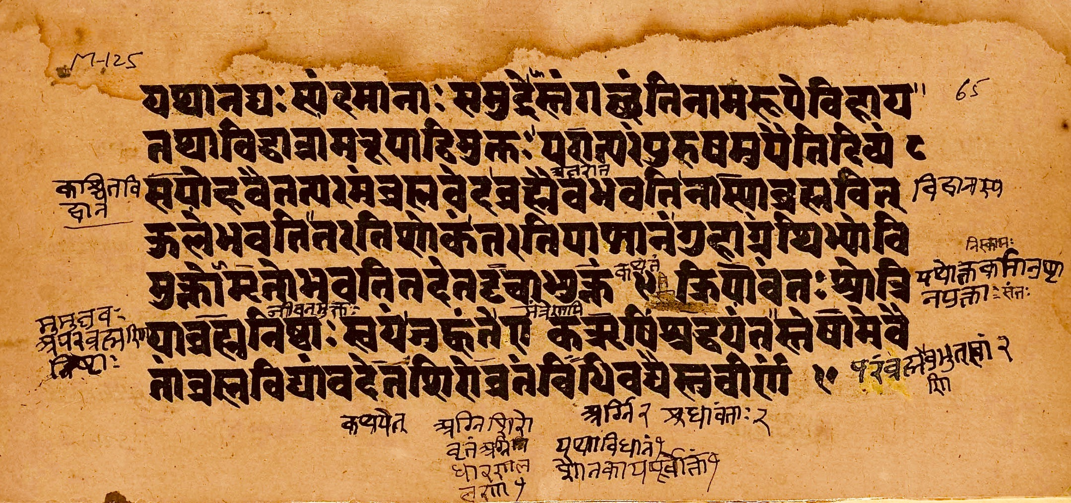 The early Upanishads (Upanisad, Upanisat) are scriptures of Hinduism. Variously dated by scholars to have been composed between 900 BCE to about 200 BCE, these texts are in Sanskrit language and embedded within a layer of the Vedas. They contain a mixture of philosophy and mystical speculations, many set in the form of dialogues or pedagogic style. Their central teachings include the concepts of Atman (soul, self) and Brahman (metaphysical reality). These manuscripts are preserved at the Lalchand Research Library, Ancient Indian Manuscript Collection, DAV College Digital Library Initiative, Chandigarh India, in association with SP Lohia and Indorama Charitable Trust. The texts are over 2000 years old, the re-copying into this particular manuscript is dated to a pre-1867 reproduction (exact date unknown). The manuscript shows significant decay and damage on the sides and its edges. Language: Sanskrit Script: Devanagari Script style: pre-14th century (Northern / Western) Mundaka Upanishad, verses 3.2.8 to 3.2.10 The thick text is the Upanishad scripture, the small text in the margins and edges are an unknown scholar's notes and comments in the typical Hindu style of a minor bhasya. The photo above is of a 2D artwork of a text that is over 2,000 years old, from a manuscript that was produced decades before 1923. Therefore Wikimedia Commons PD-Art licensing guidelines apply. Any rights I have as a photographer is herewith donated to wikimedia commons under CC 4.0 license.